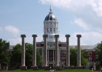 This picture was created by User: Stevehrowe2 and edited by User: Grey Wanderer